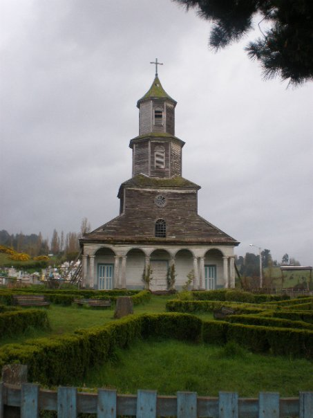 This is a photo of a national monument in Chile: 704